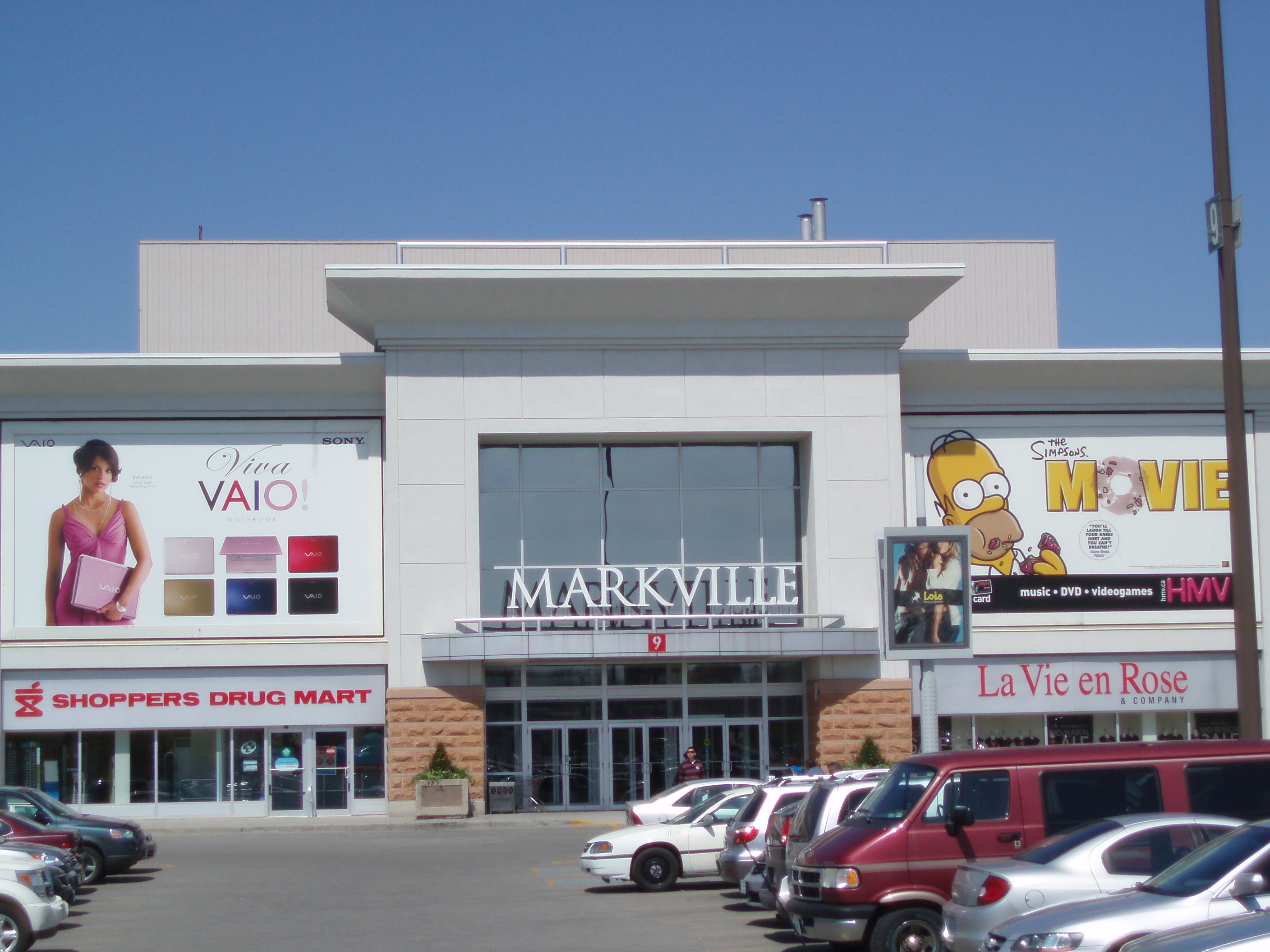 Markville Shopping Centre in Markham